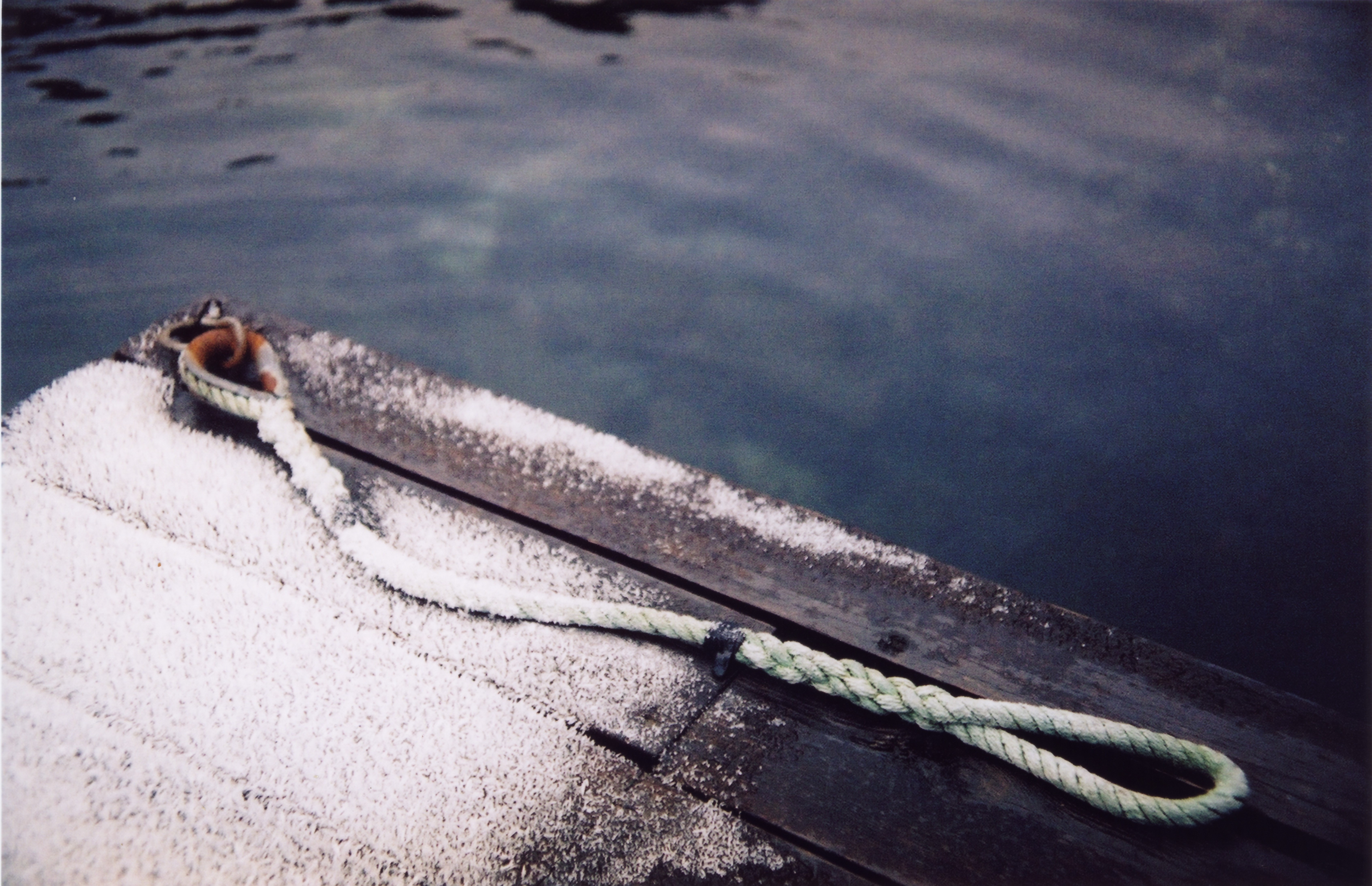 A rope on a freezing winter day. Taken near Bergen in 2006.